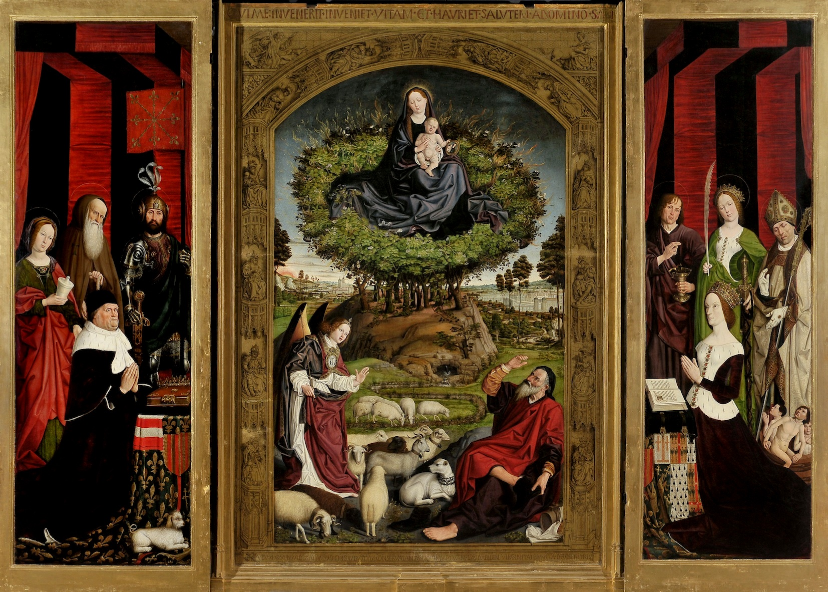 Nicola Froment, Triptych of the Burning Bush, 1475, Aix-en-Provence, Church Saint-Sauveur